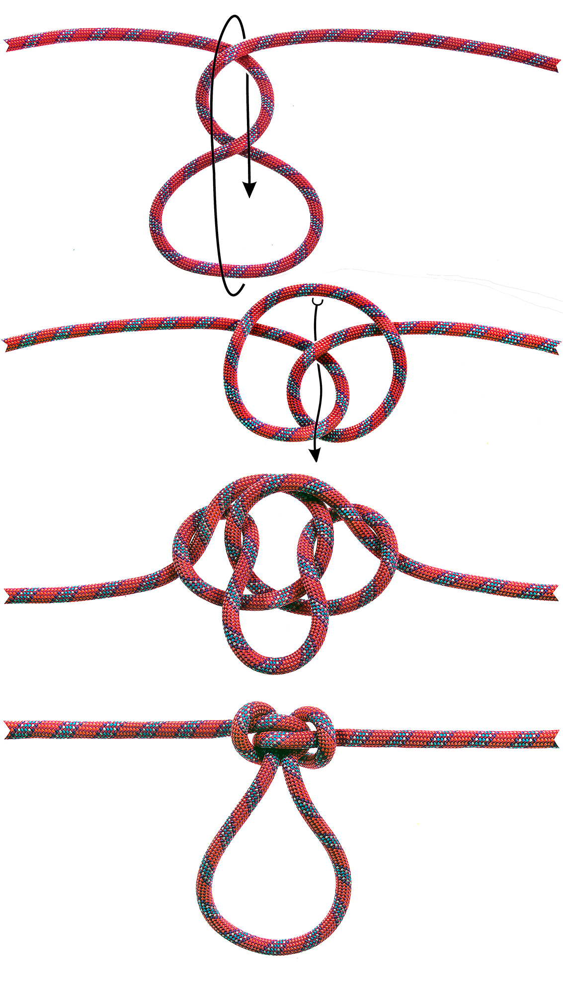 Butterfly loop